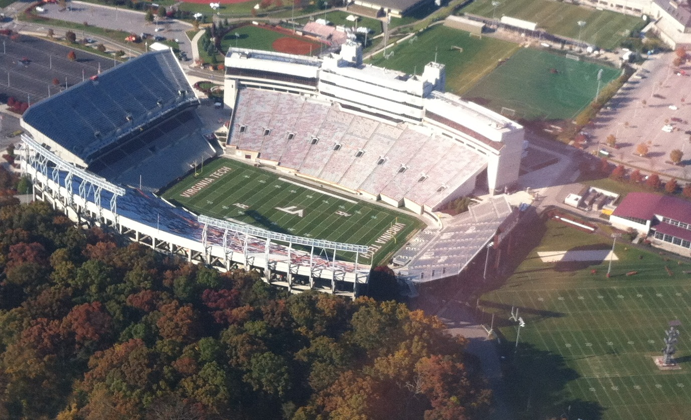 Virginia Tech Hokie's Lane Stadium